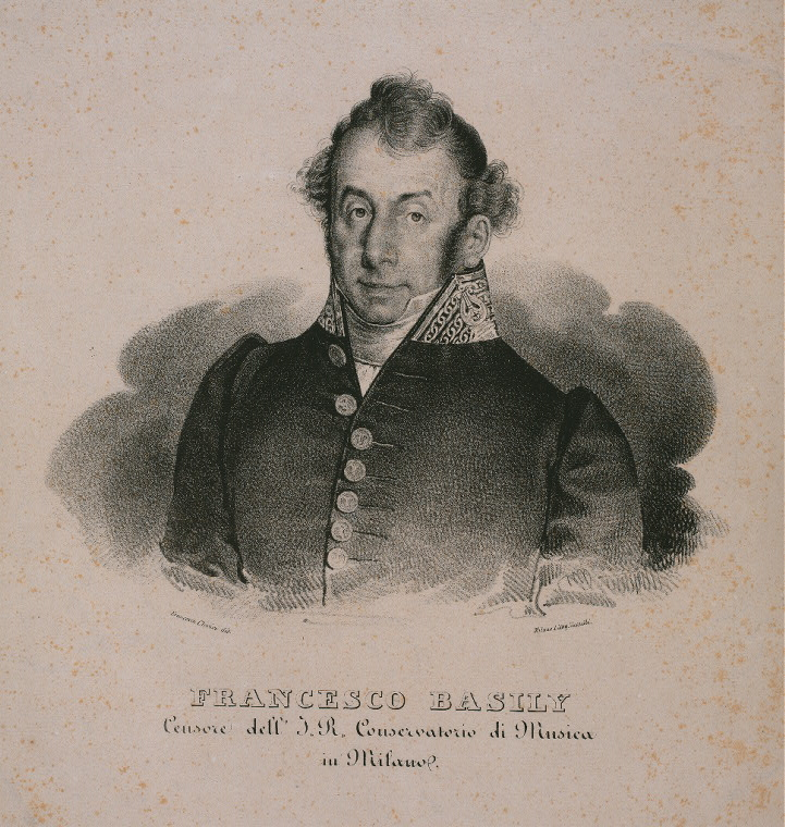 Francesco Basily, (1767–1850], Italian composer